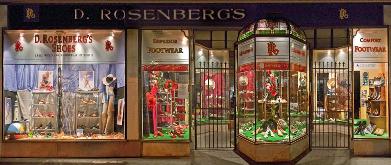 Rosenberg Shoes Heritage Listed Store Front. This picture shows the beauty of the old style store front. The facade consisting of white marble, an extruded brass framework and a stain-glass dome sitting atop the rotunda situated at the front of the store.